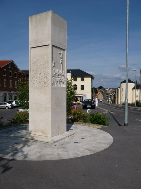 Sturminster Newton: cattle-market memorial This fine memorial stands by the site of the former cattle market, which was established in 1219 and closed on 9 June 1997. Below the illustration, starting at the corner facing us, the following wording goes right round the memorial: "1997 STURMINSTER NEWTON CATTLE MARKET 1219", returning to this facing corner.